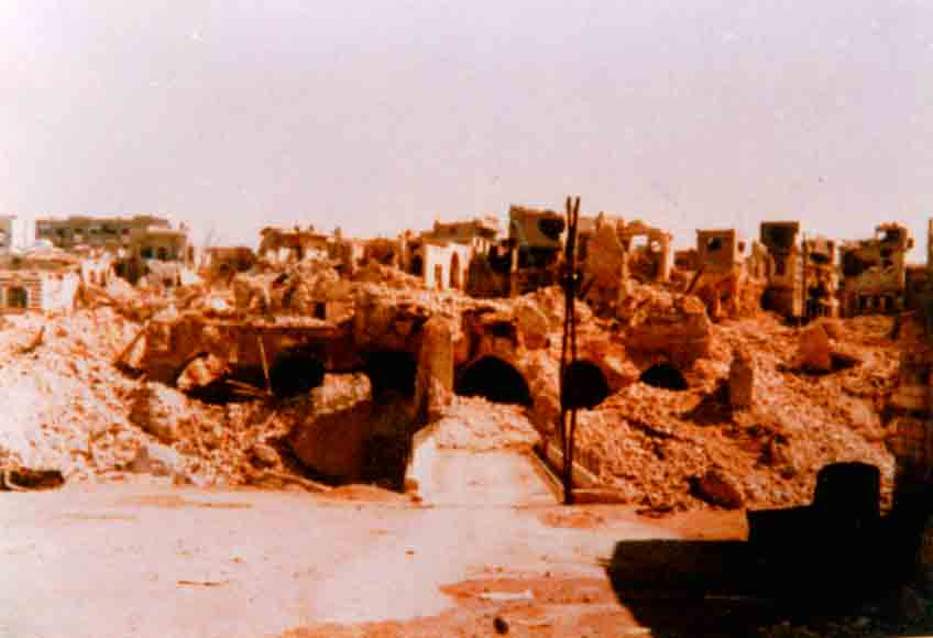 Photo of destruction in Hama following the Hama Massacre in 1982. Photograph has been taken next to the Nur al-Din Mosque, looking eastward across the Sheikh Abdul Qadir Al-Kilani Bridge